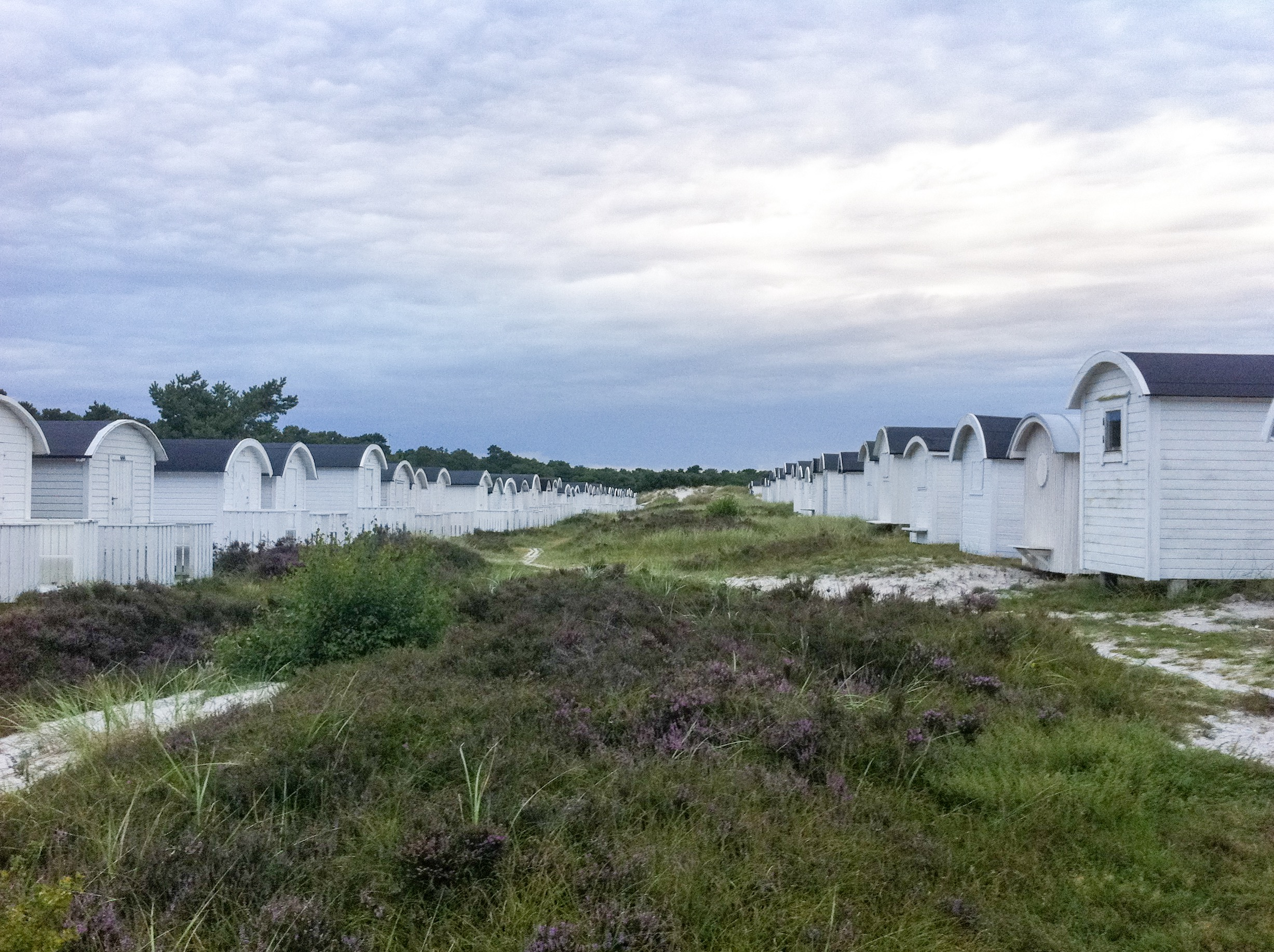 This picture was taken inbetween two rows of beach huts by Ljunghusen beach.